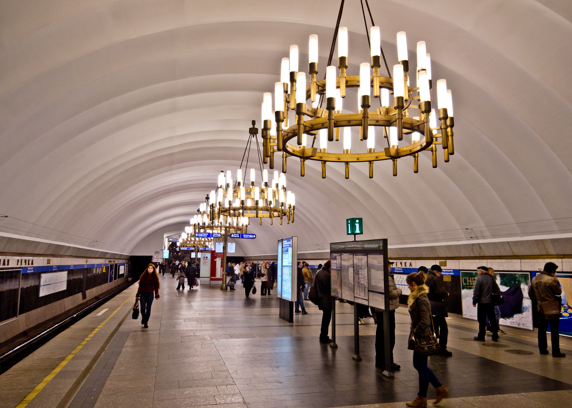 Chyornaya rechka station of Saint Petersburg Subway